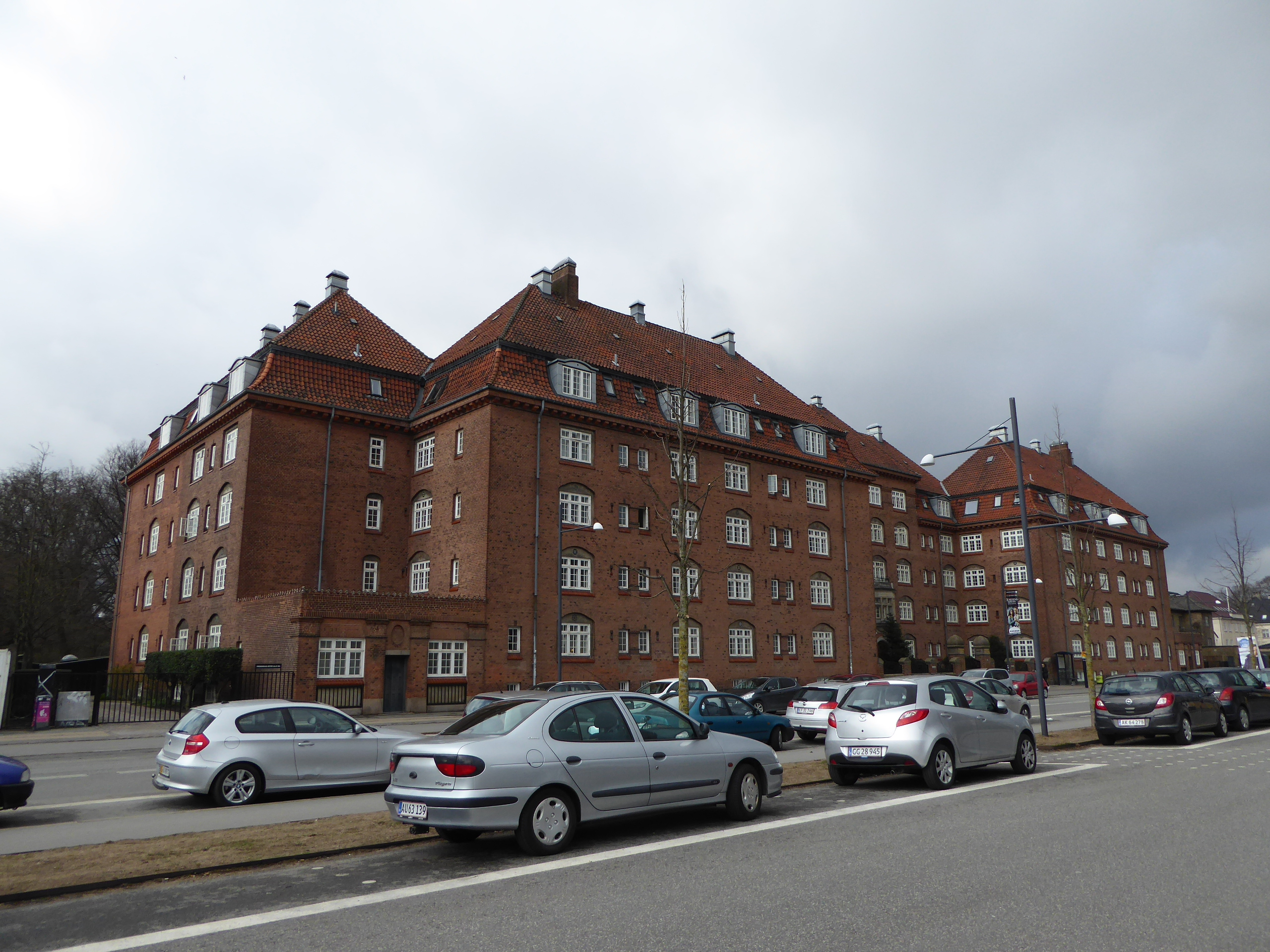 The building Arbejderhjemmet Fredenshus at Øster Allé in Østerbro in Copenhagen.